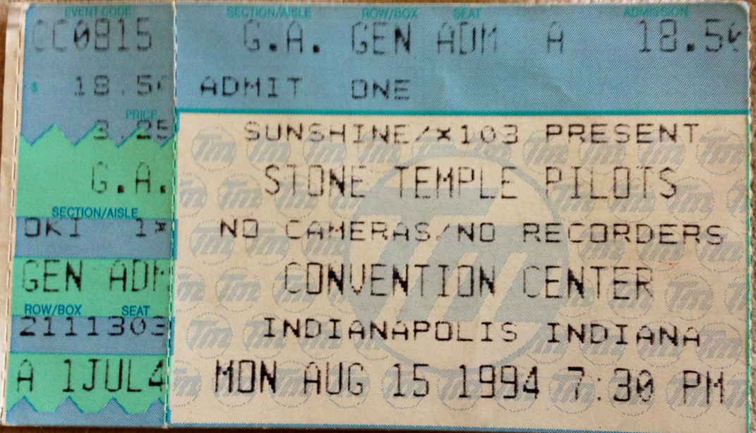 Stone Temple Pilots concert ticket August 15, 1994 Convention Center, Indianapolis, Indiana